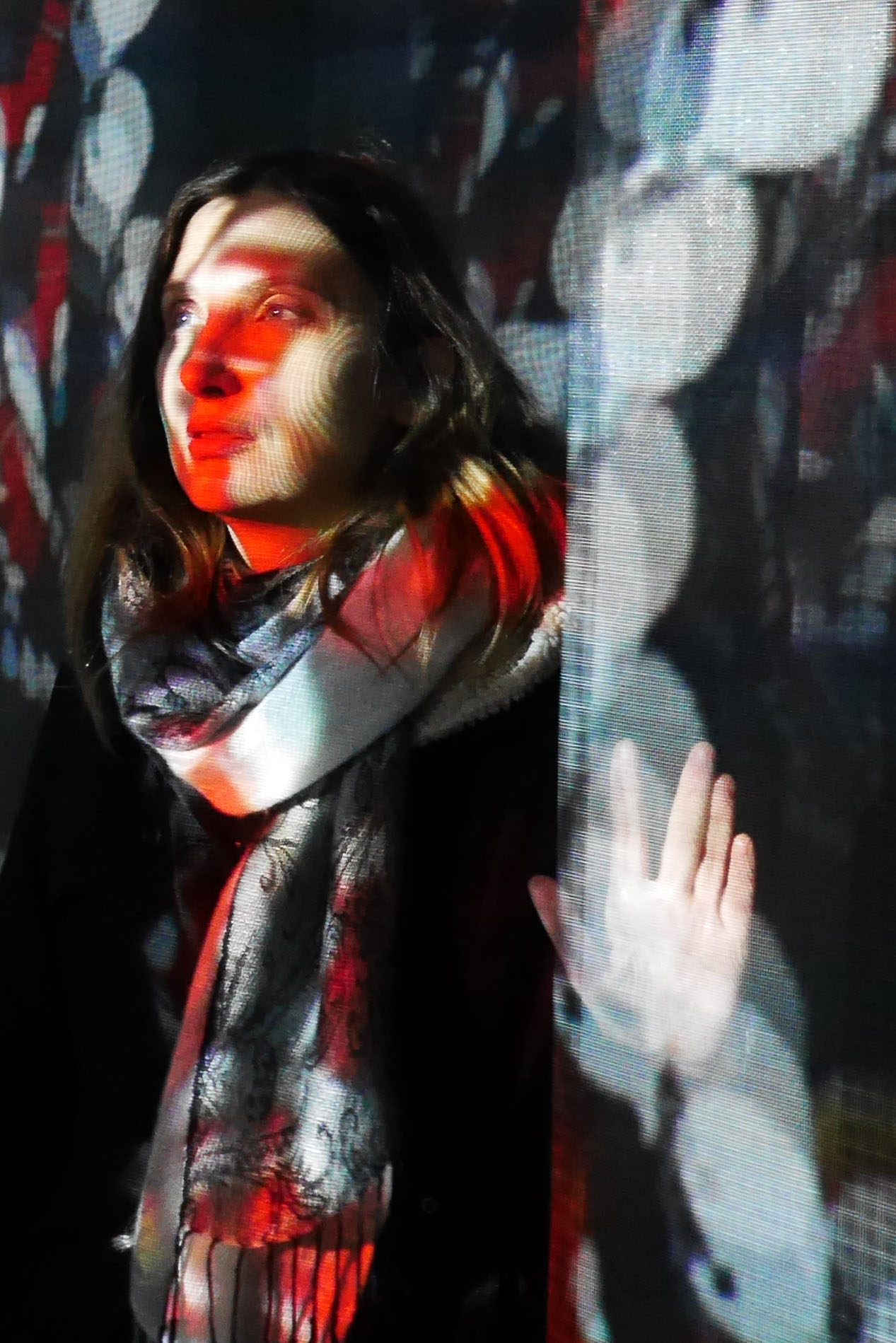 In-installation view of Kamila B. Richter at the Lost exhibition at Apollonia Échanges Artistiques Européens, Strasbourg, France, 2016